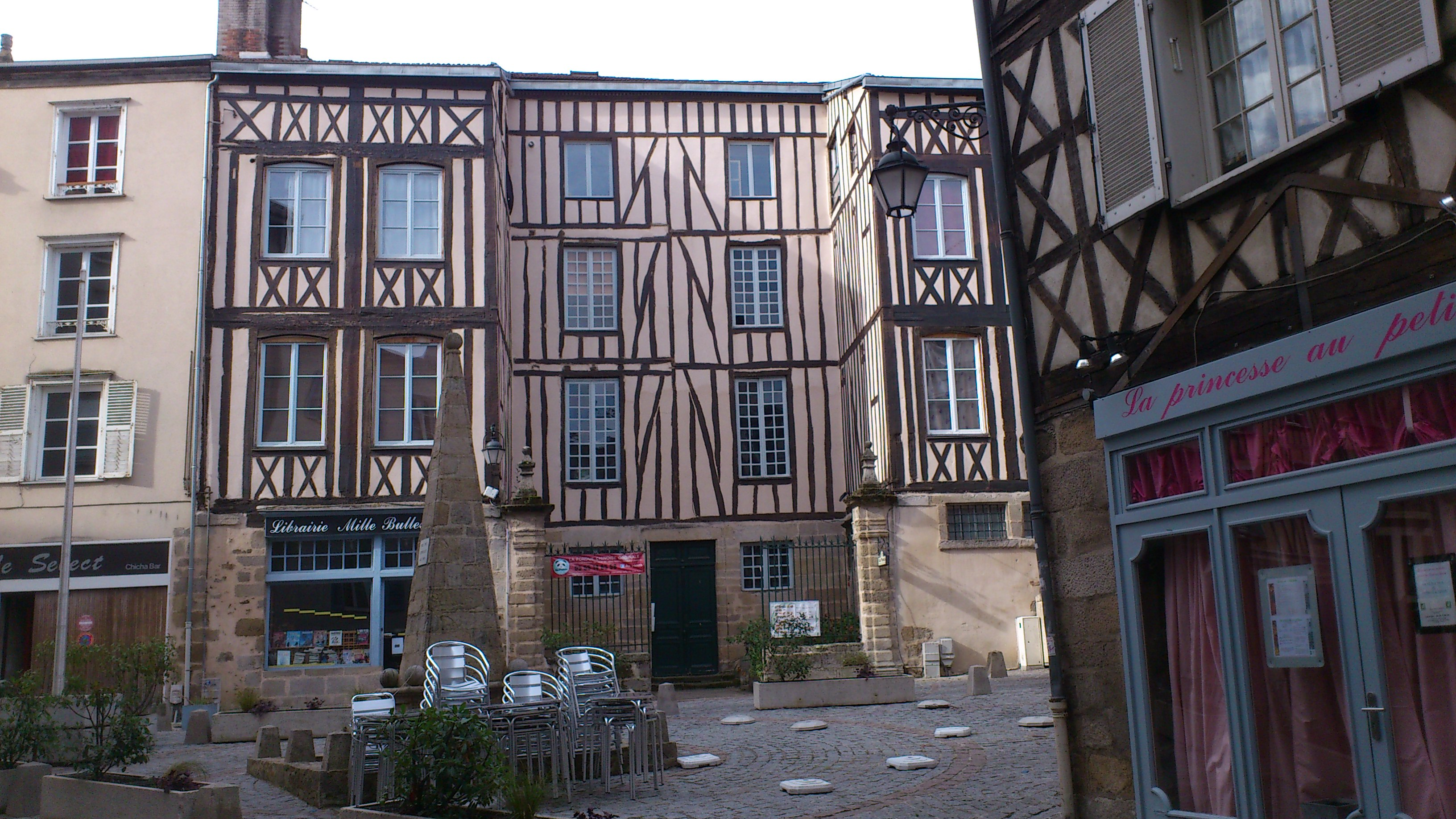 Place Fontaine des Barres in Castle district, Limoges